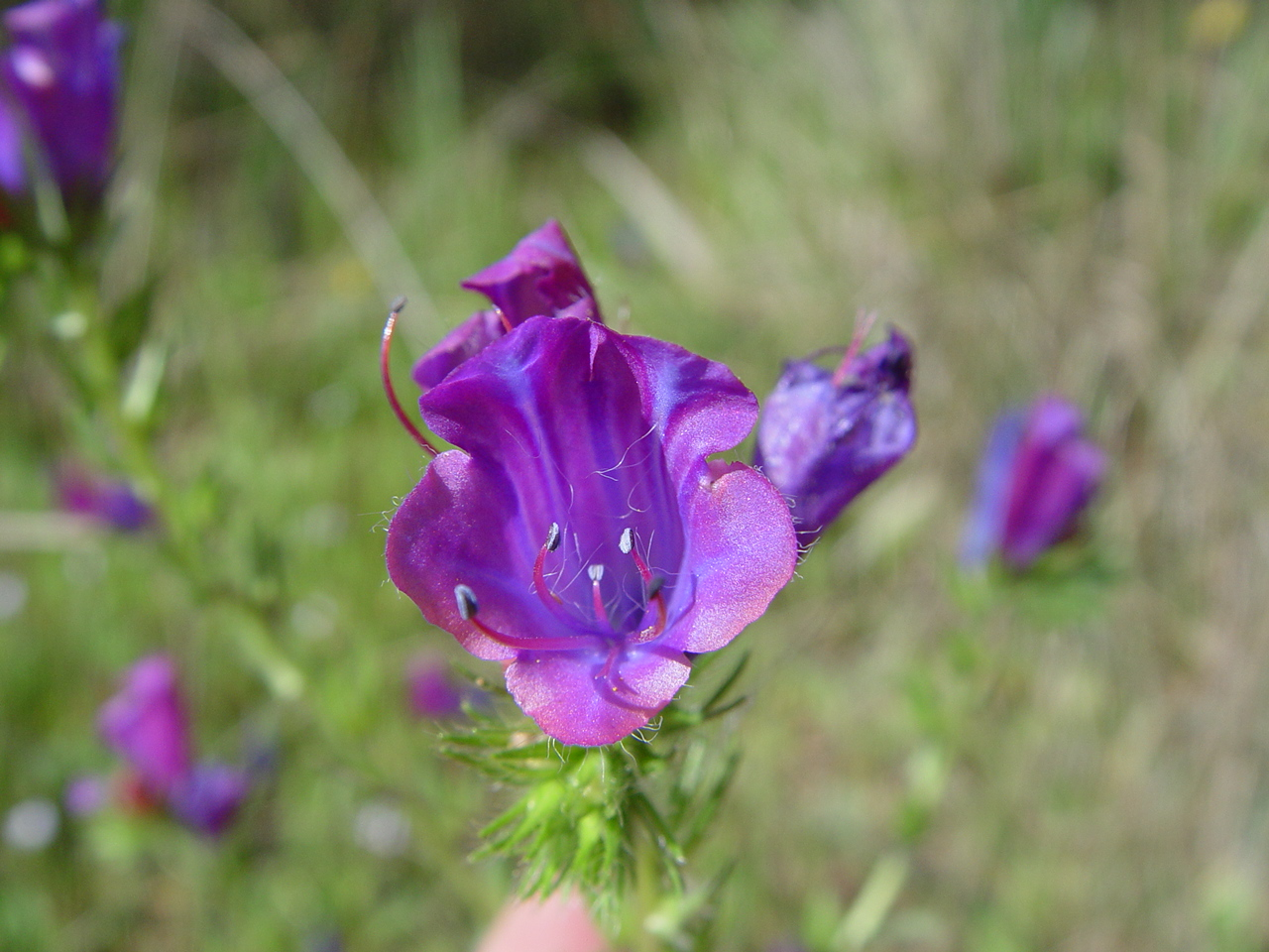 Name Echium plantagineum Familiy Boraginaceae Used in Article Echium plantagineum.